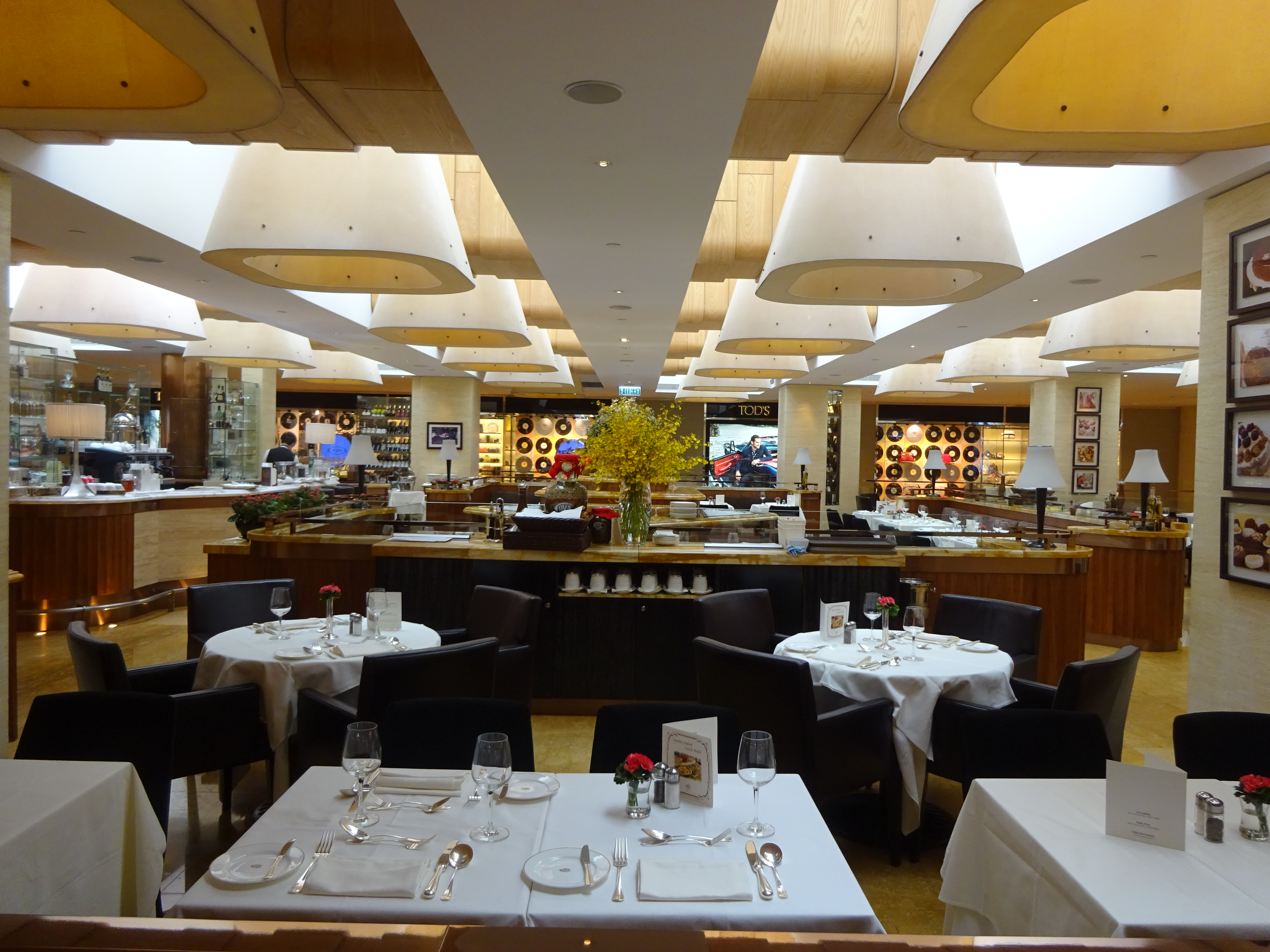 HK Admiralty 太古廣場, Pacific Place mall shop COVA Caffe Milano Pasticceria April 2016